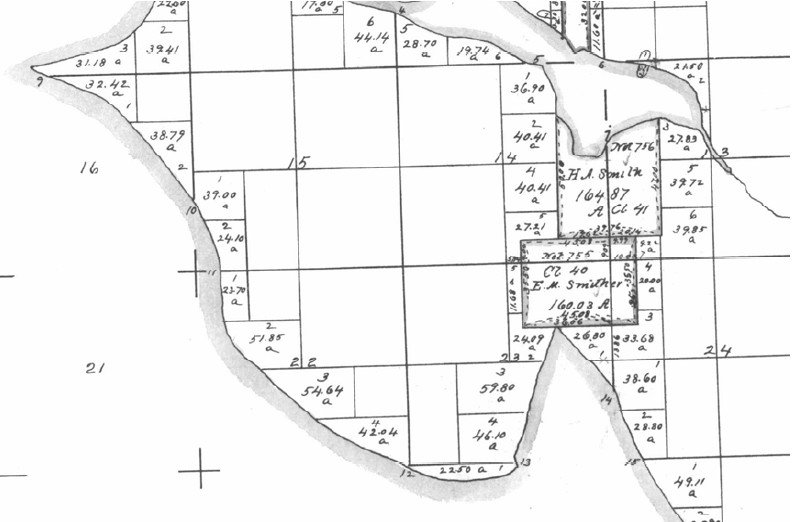 Part of 1863 (United States) Government Land Office map showing what is now Interbay and most of Magnolia in Seattle Washington. Salmon Bay is to the north; Smith Cove juts in from the south. Note the claims by H. A. Smith and E. M. Smither. Smith eventually came to own Smither's claim. The map shows the natural shape of the land before the dredging of a canal to the northeast and the filling of much of the cove to the south.